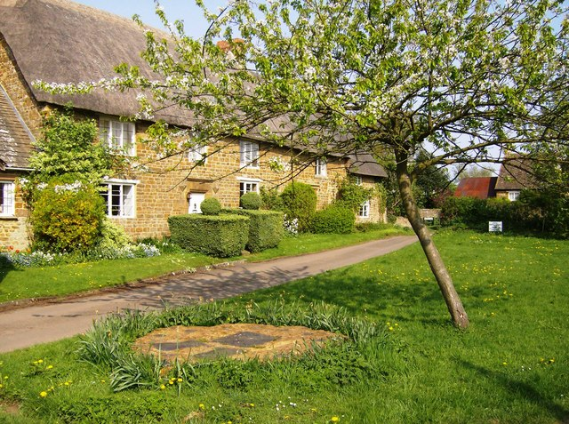 Part of the village green at Epwell, Oxfordshire. On the left is Village House, with Charlie's Cottage beyond. Both are thatched 17th-century stone cottages. The stone area with grey slates in the foreground is a sundial. See 449049